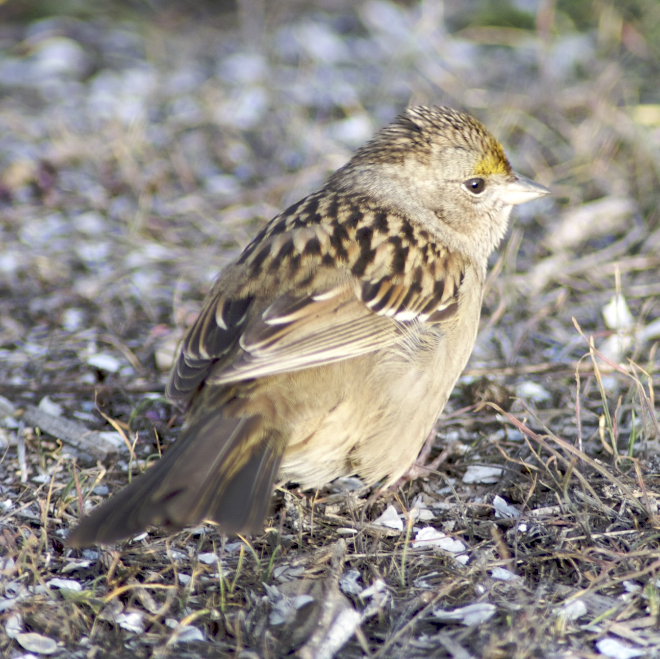 A first-winter Golden-crowned Sparrow in USA.